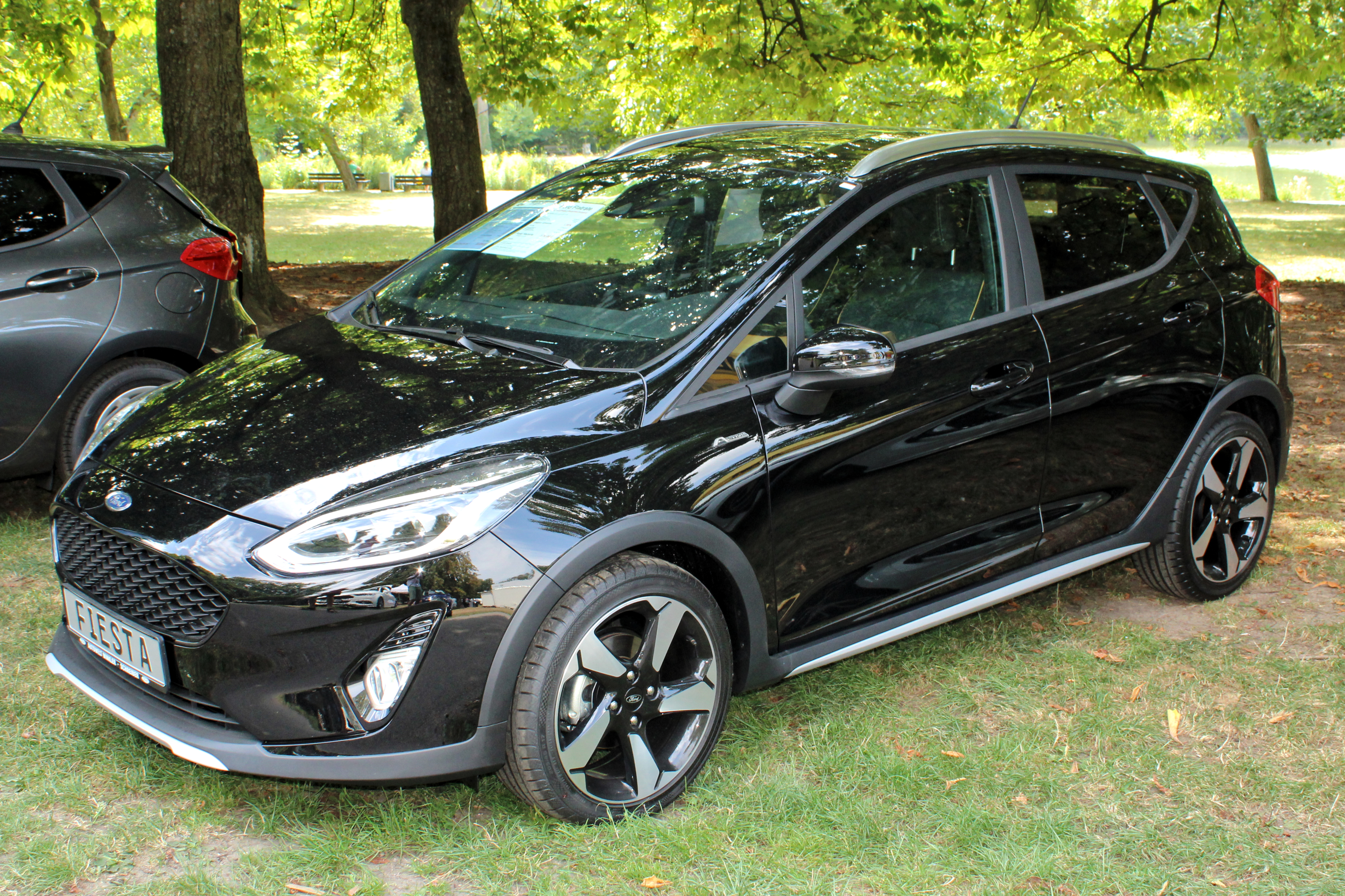 Ford Fiesta ST MK7 at schloss Monrepos